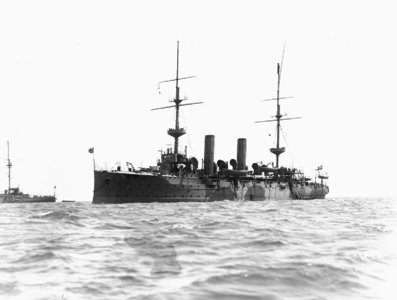 Photograph of British Eclipse class protected cruiser HMS Doris.